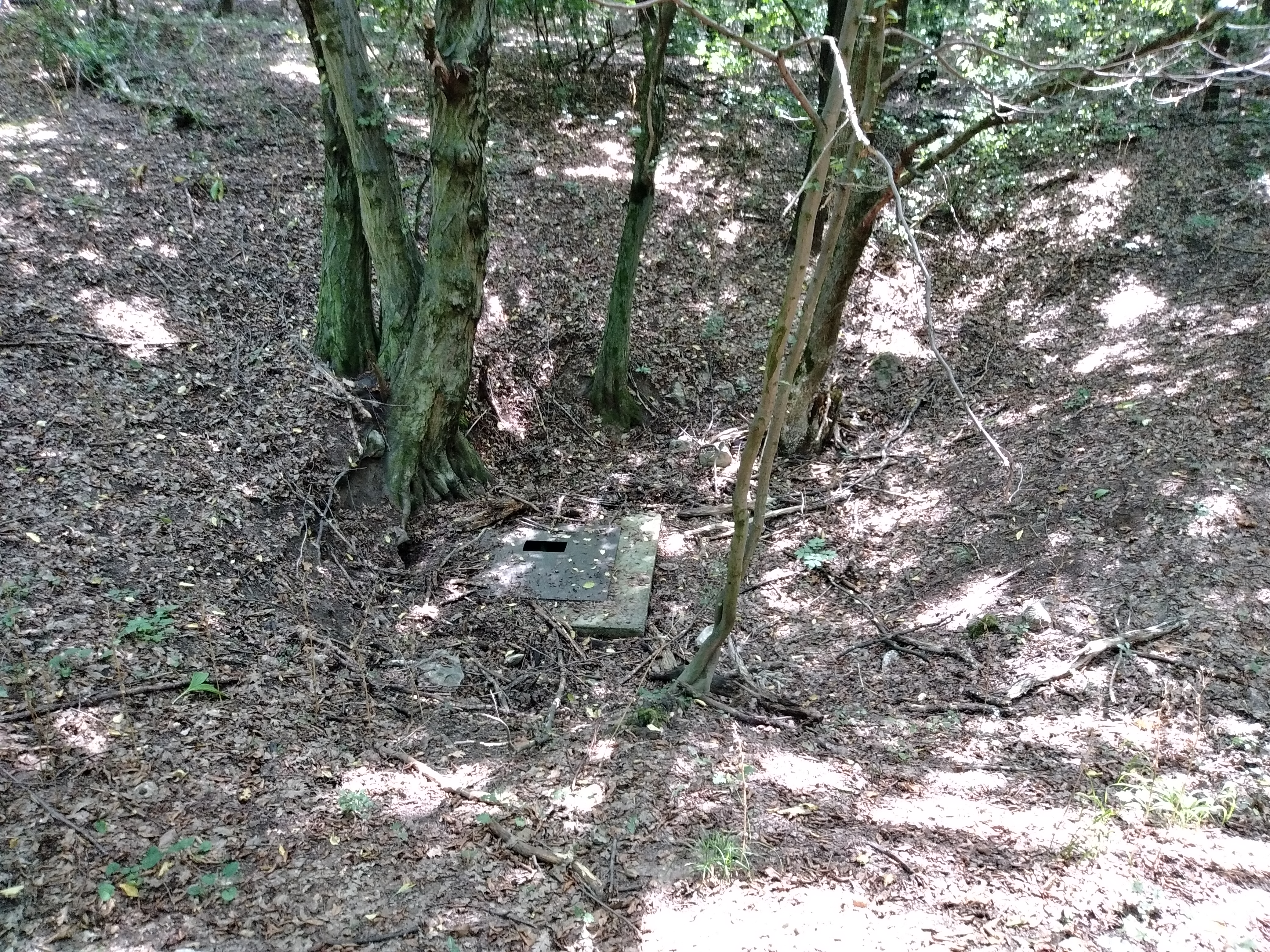 Entrance of Tatabányai Bányász Cave in Tatabánya.